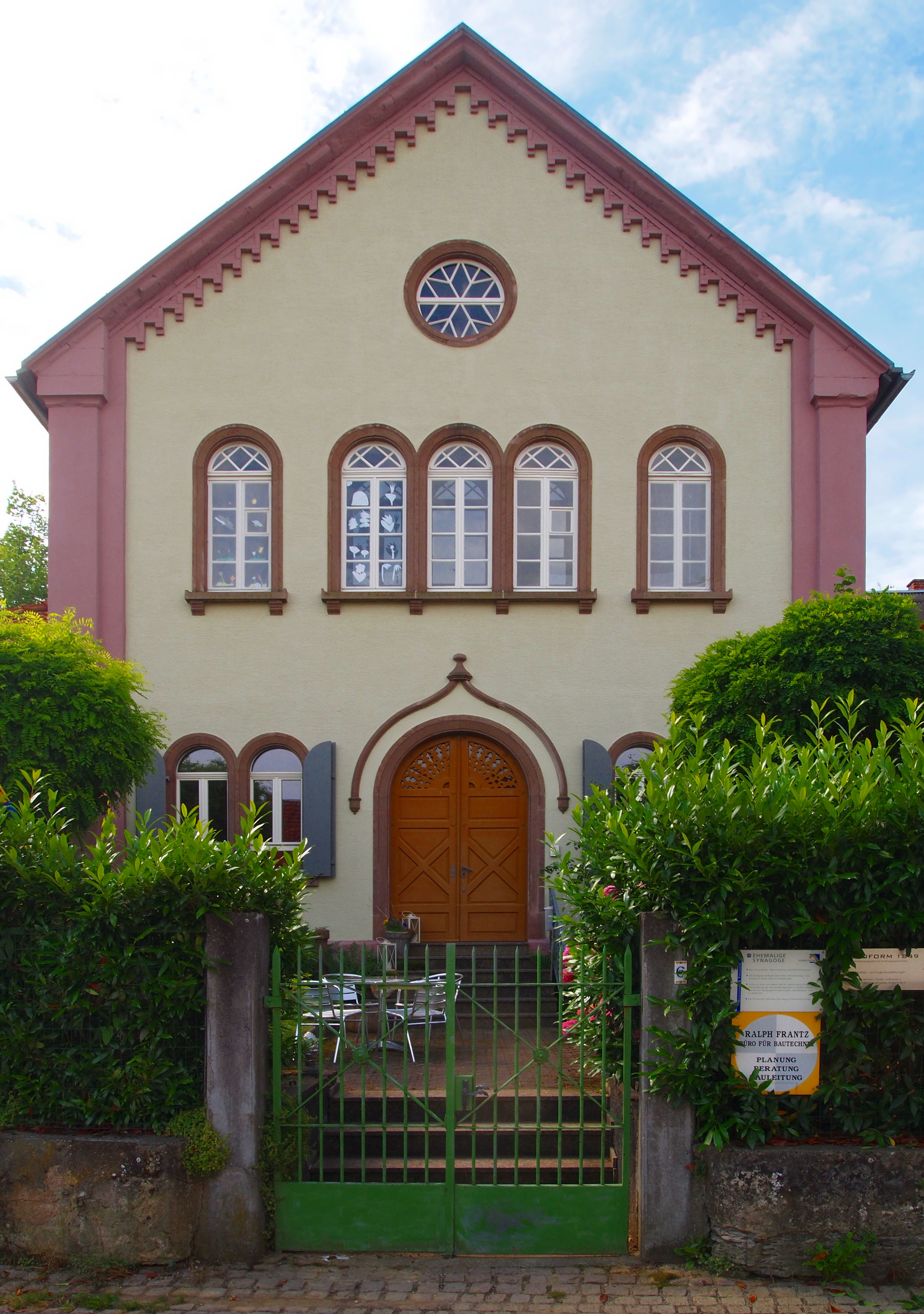 former synagogue of Gondelsheim, Germany